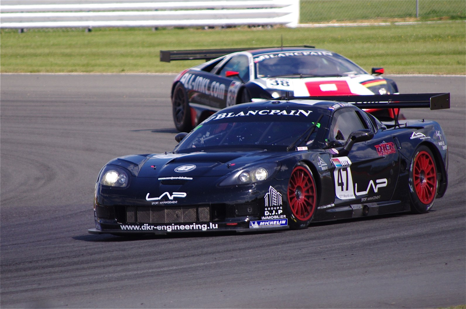 DKR Engineering's Chevrolet Corvette Z06 driven by Michaël Rossi and Matteo Bobbi in the 2011 Silverstone Supercars. Original description from flickr: Silverstone Supercars 2011